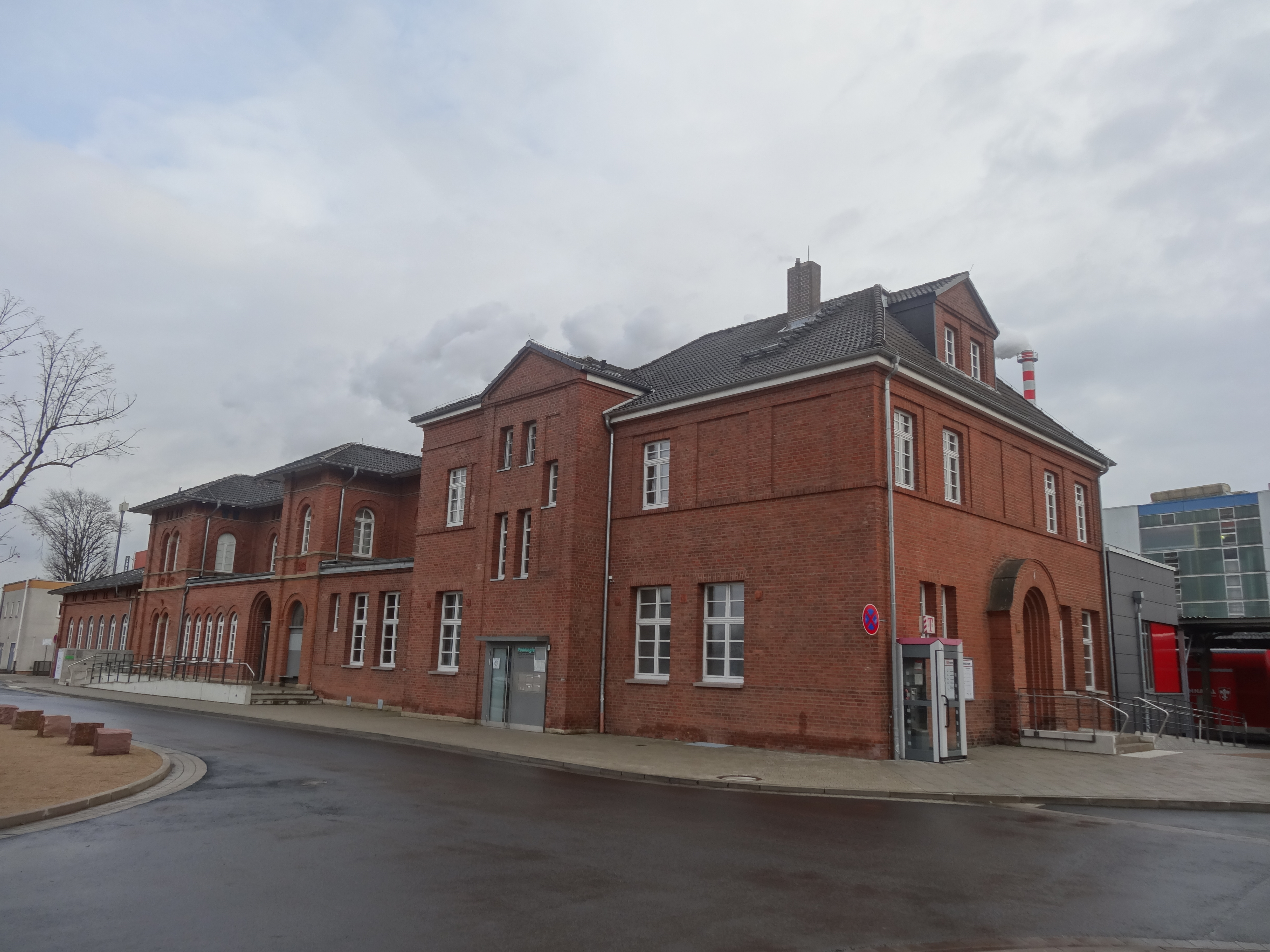 Railwaystation in Wabern (Hesse)